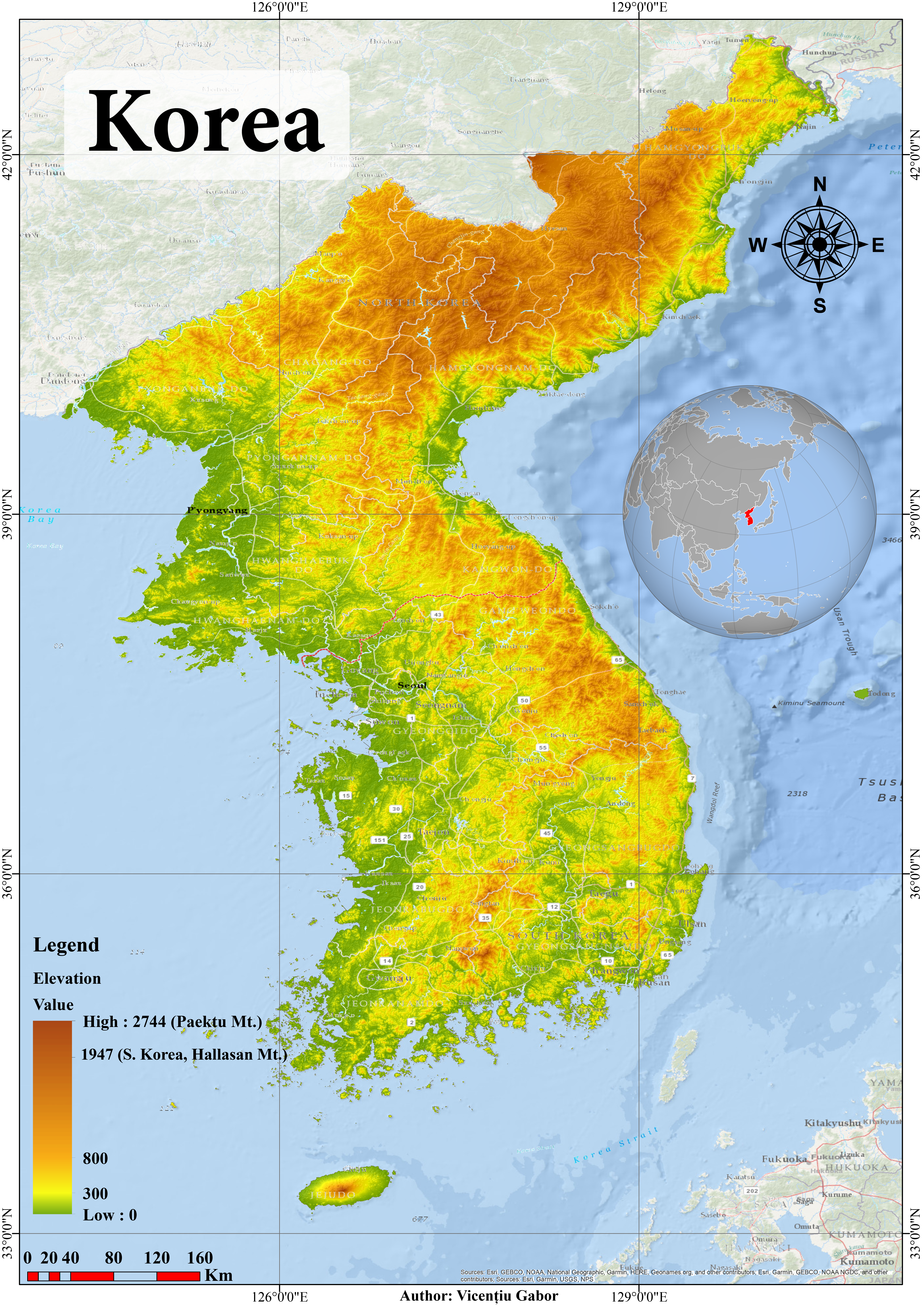 Made with ArcMap 10.6